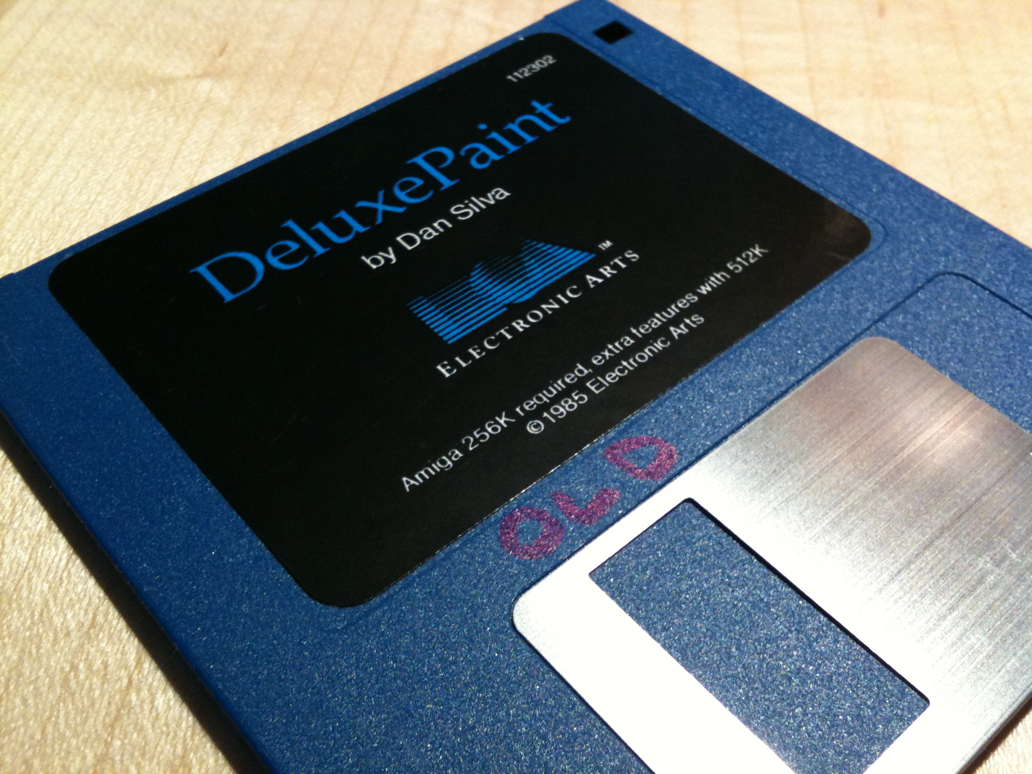 Deluxe Paint for Amiga floppy disk (1985 Electronic Arts)